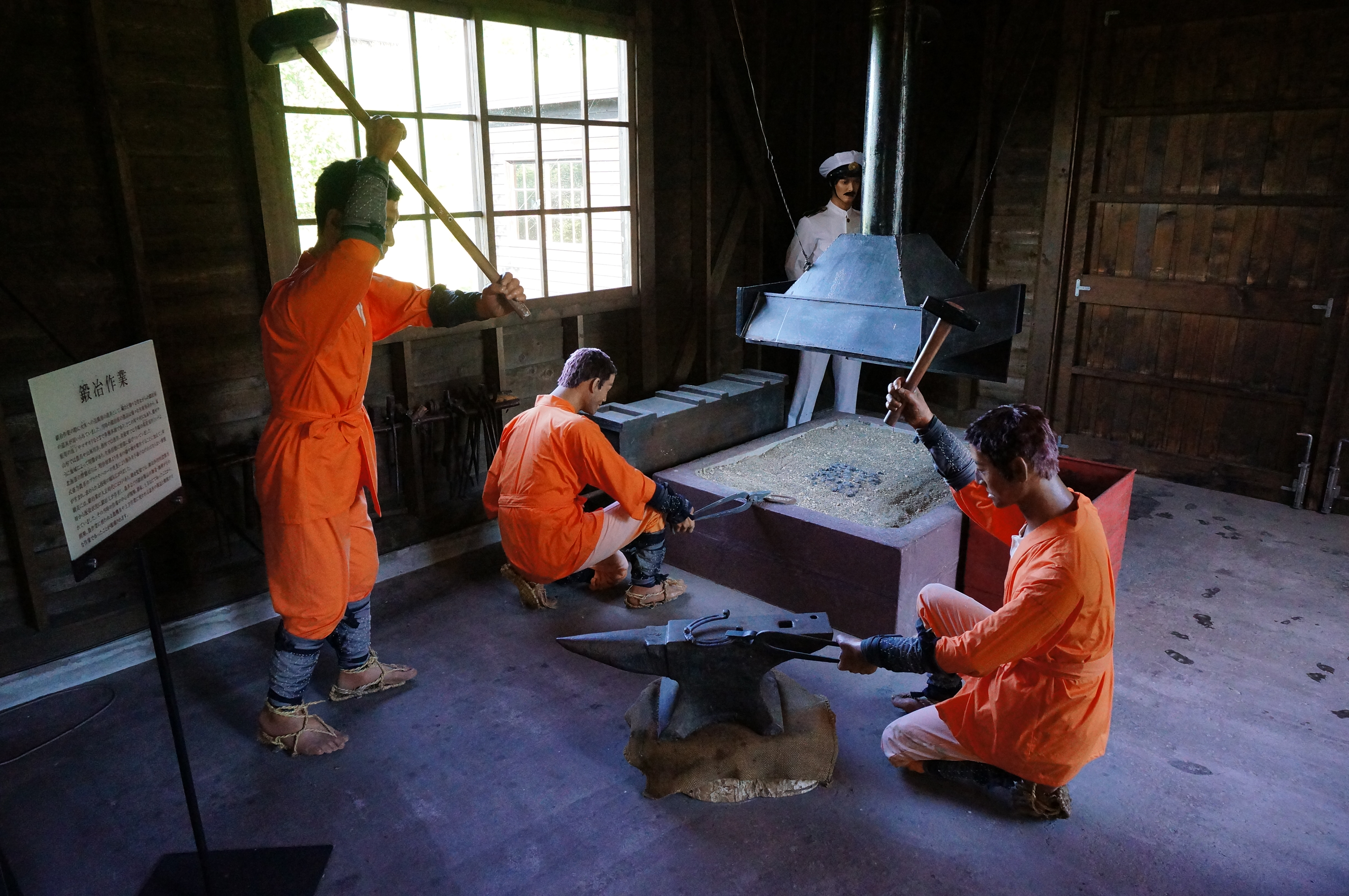 Abashiri Prison Museum in Abashiri, Hokkaido, Japan.